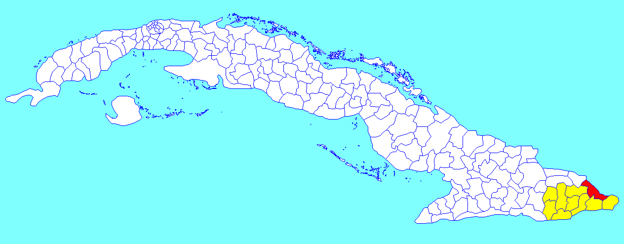 Location map of the Municipality of Baracoa (red), in Guantánamo Province (yellow), southeastern Cuba.